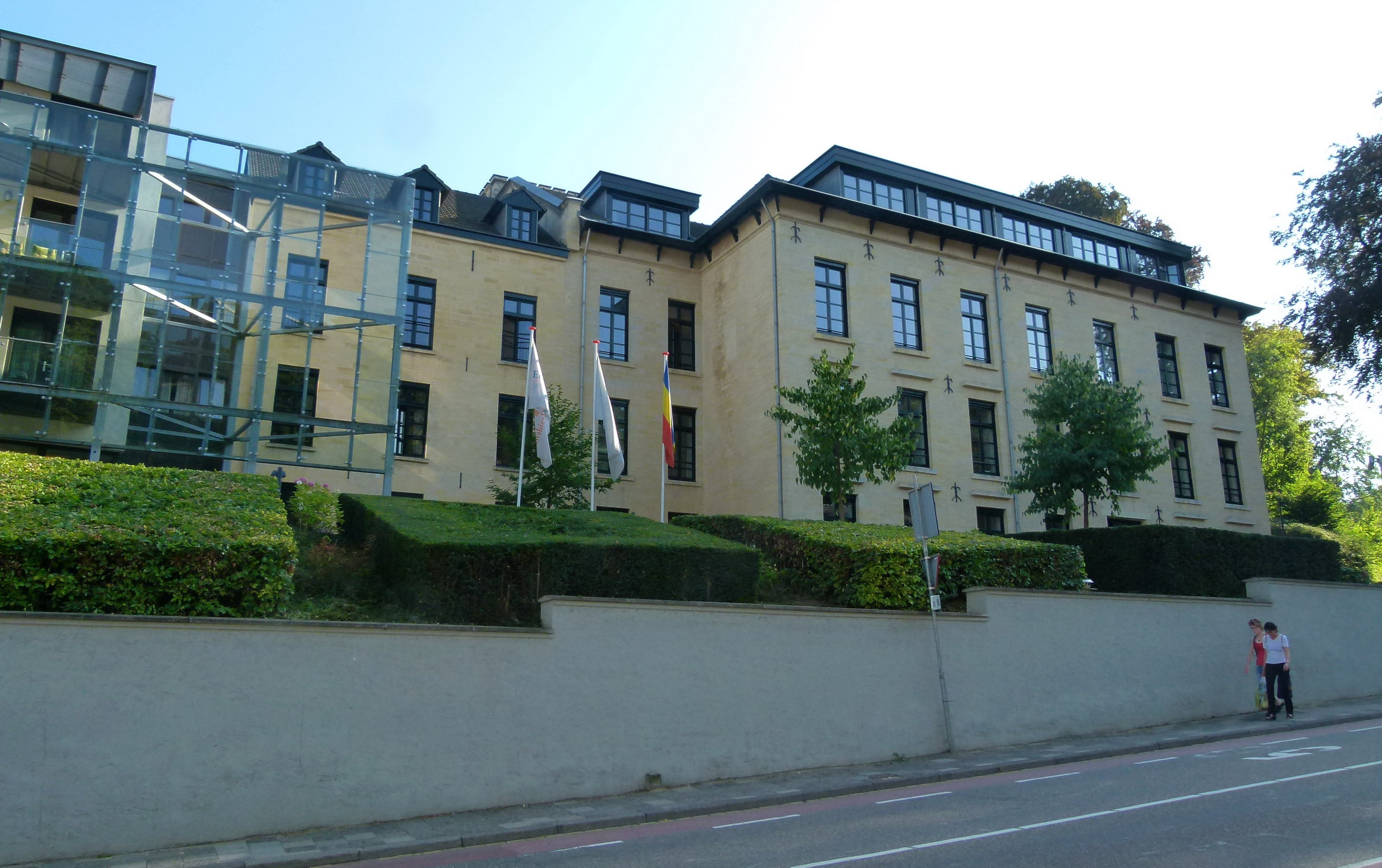 Valkenburg, Limburg, the Netherlands. View from the North of Domaine Cauberg, the former monastery of the fathers of the Congregation of the Sacred Hearts of Jesus and Mary.